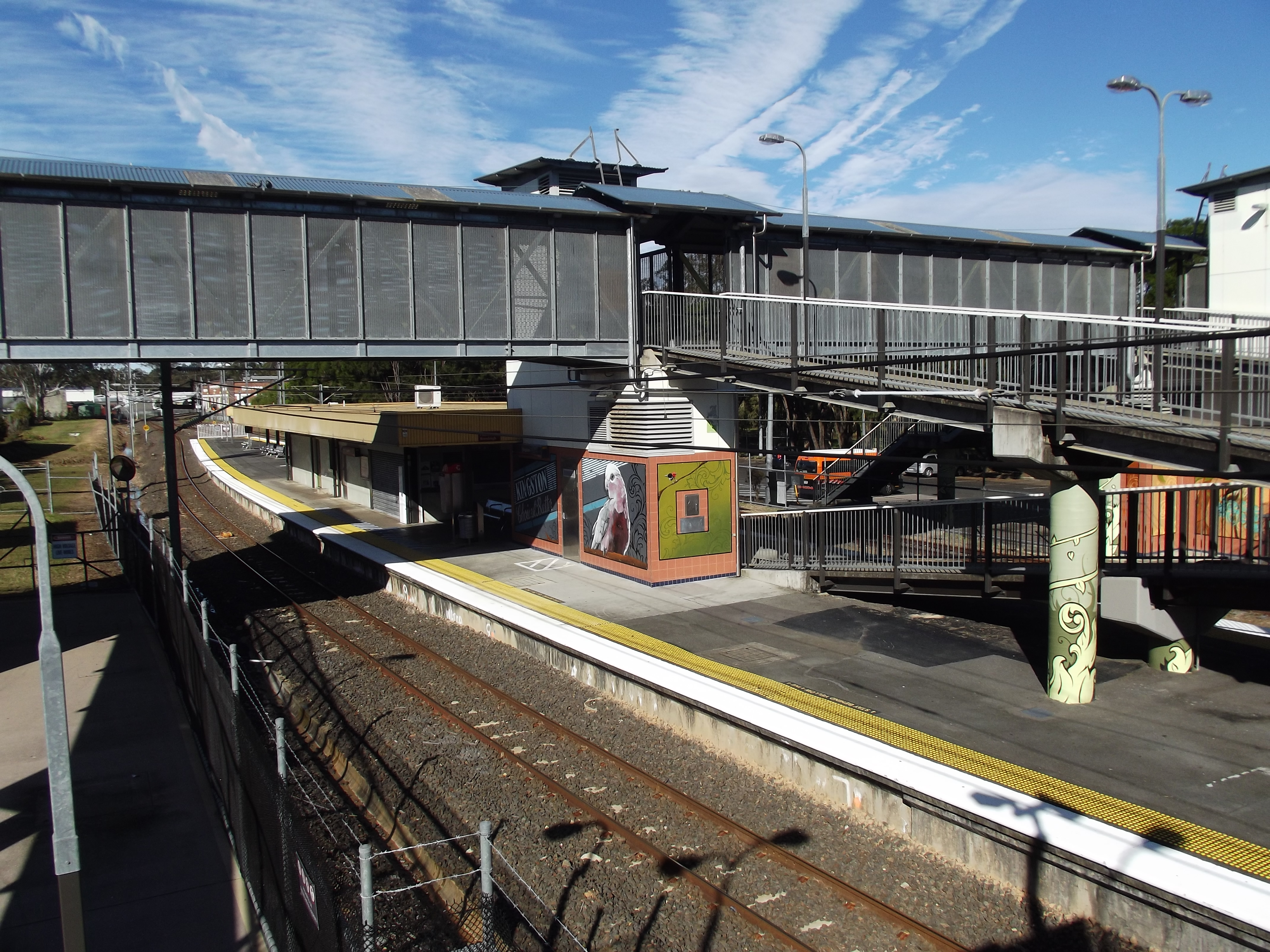 A photo of the Kingston railway station, operated by TransLink, located in Logan City, Queensland.